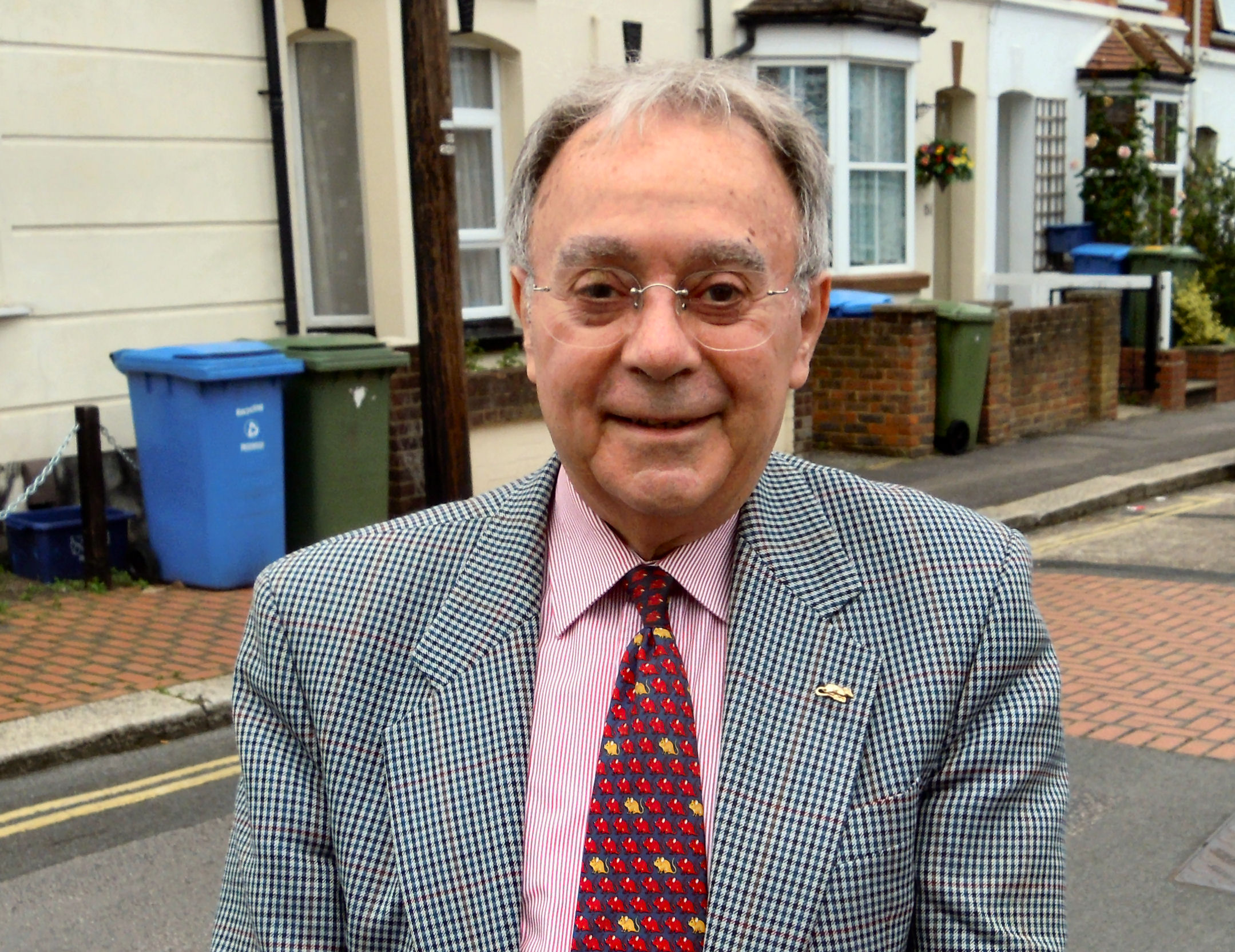 Chris Emmett at the unveiling of an Aldershot Civic Society blue plaque for Arthur English at 22 Lysons Road in Aldershot in Hampshire